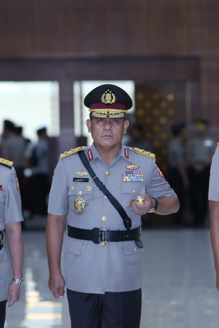 Jakarta - Inspector General Firli Bahuri officially assumed the position of Head of the National Police's Maintenance and Security Agency (Kabaharkam) to replace Komjen Condro Kirono who will retire. Inspector General Firli claimed to have the challenge of preparing personnel for the security of the simultaneous local elections in 2020.